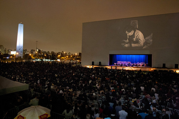 Nosferatu screening (2012)